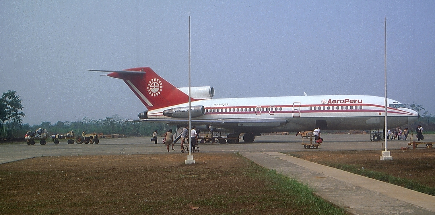 An Aeroperú Boeing 727 in August 1988, before a flight from Puerto Maldonado to Lima. The aircraft, built in 1967, once flew for the Belgian airline Sabena. It was scrapped in 1995.